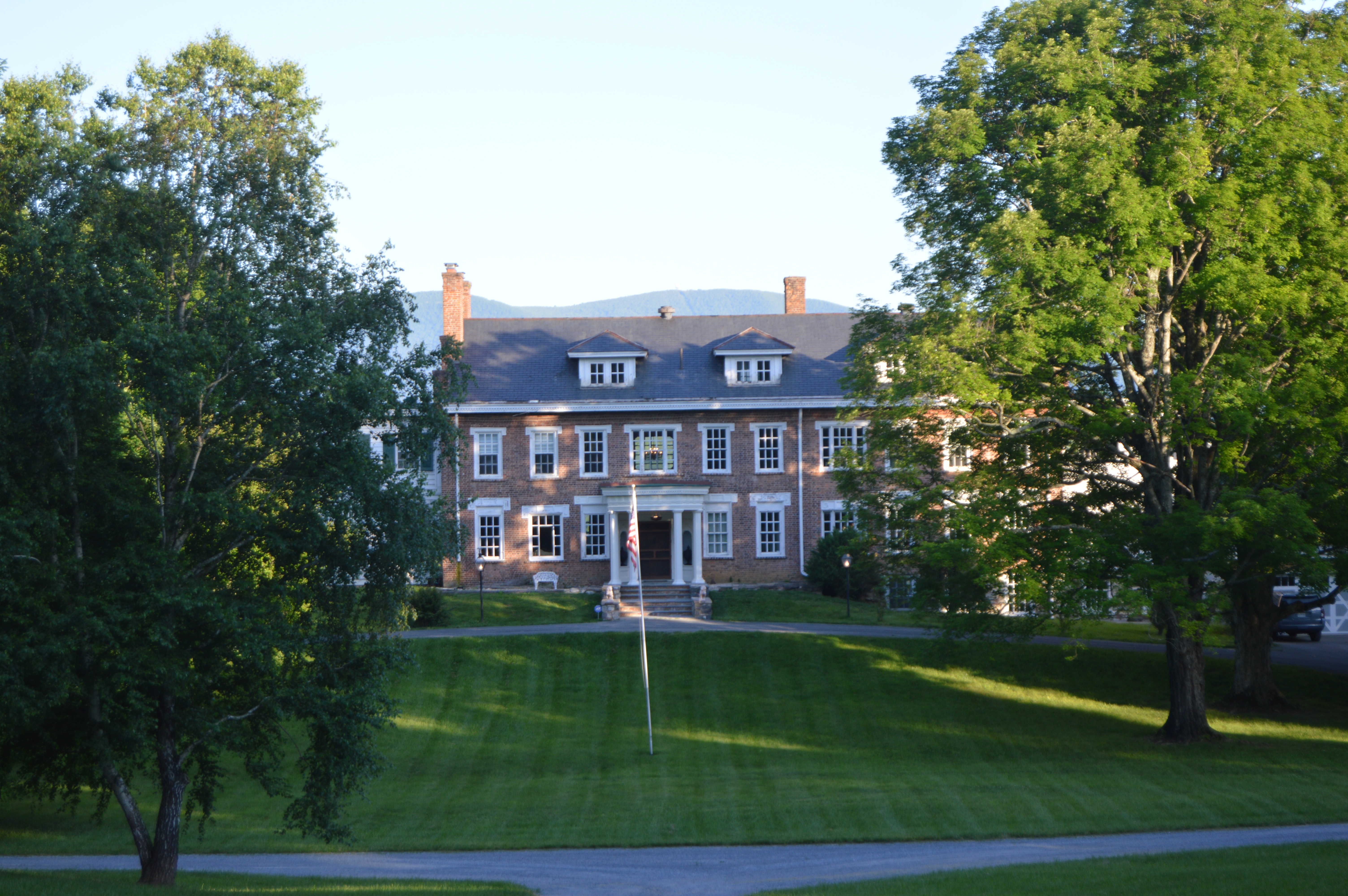 Front of Vine Forest, located on U.S. Route 11 southwest of Natural Bridge in Rockbridge County, Virginia, United States. Built in 1806 and greatly expanded in 1916, it is listed on the National Register of Historic Places.